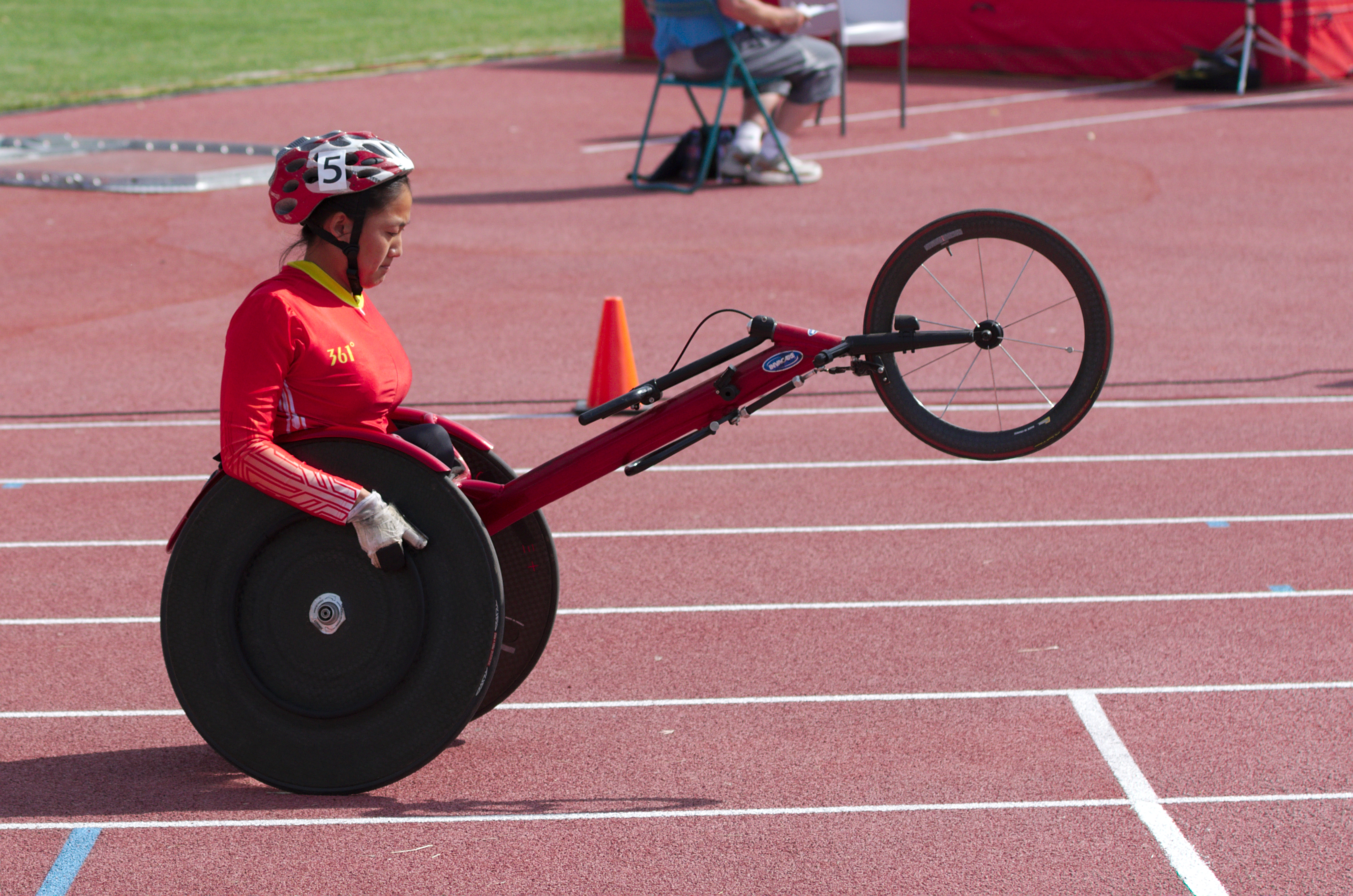 Hongzhuan Zhou of China during the Women's 400m - T53 first semifinal